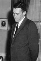 U.S. Deputy Attorney General Lawrence Walsh at the Oval Office while President Dwight Eisenhower signs the Civil Rights Act of 1960